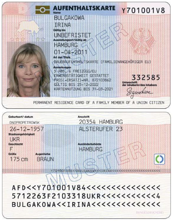 Permament residence card of a family member of a union citizen (electronic version) in Germany